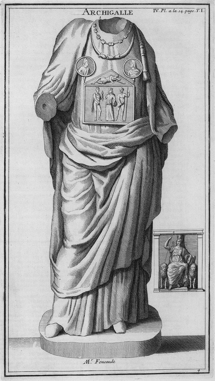 The illustration depicts a statue of an Archigallus, as well as a smaller image of Cybele seated in temple, flanked by two lions. Archigallus was the title of the head of the Galli, the influential priesthood of Cybele in Rome. In most depictions the Archigallus is decoratively dressed and the statue illustrated here is no exception with its embellished neckline. The missing head would likely have been wearing an elaborate headdress too. On the chest of the figure is a depiction of Mercury, apparent by his caduceus and winged hat, Jupiter, as shown by his held thunderbolts, and the crowned and veiled Cybele. These characters together show the integration of the Phrygian cult of Cybele into the Roman society.